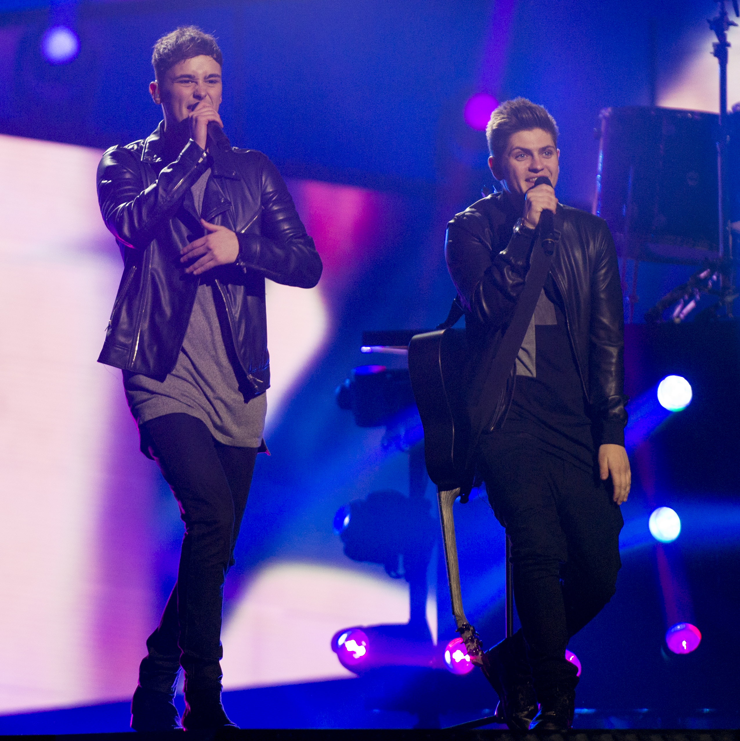 Joe & Jake representing United Kingdom with the song "You're Not Alone" during a rehearsal for "the Big Five" in the Eurovision Song Contest 2016 in Stockholm. (Help translate this text)